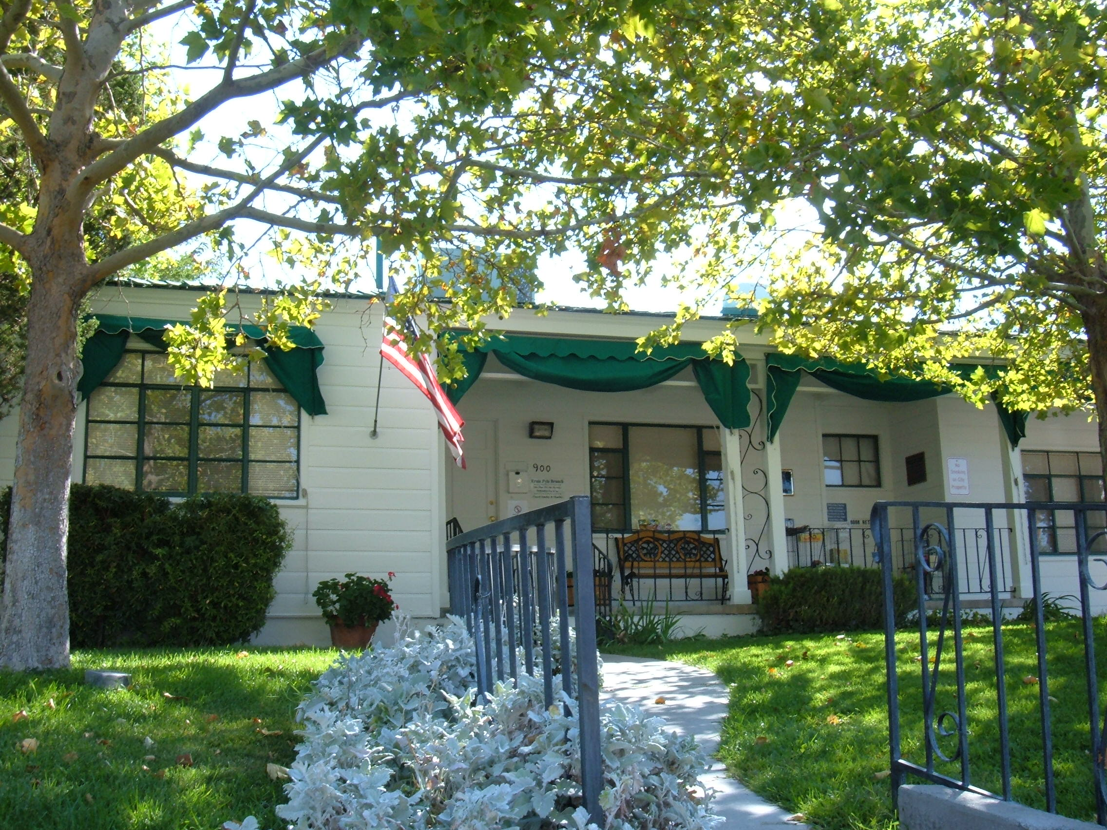 Ernie Pyle House and Library located at 900 Girard Boulevard SE in Albuquerque, New Mexico. This was the home of war correspondent Ernie Pyle and is now a branch library of the Albuquerque/Bernalillo County Library System.